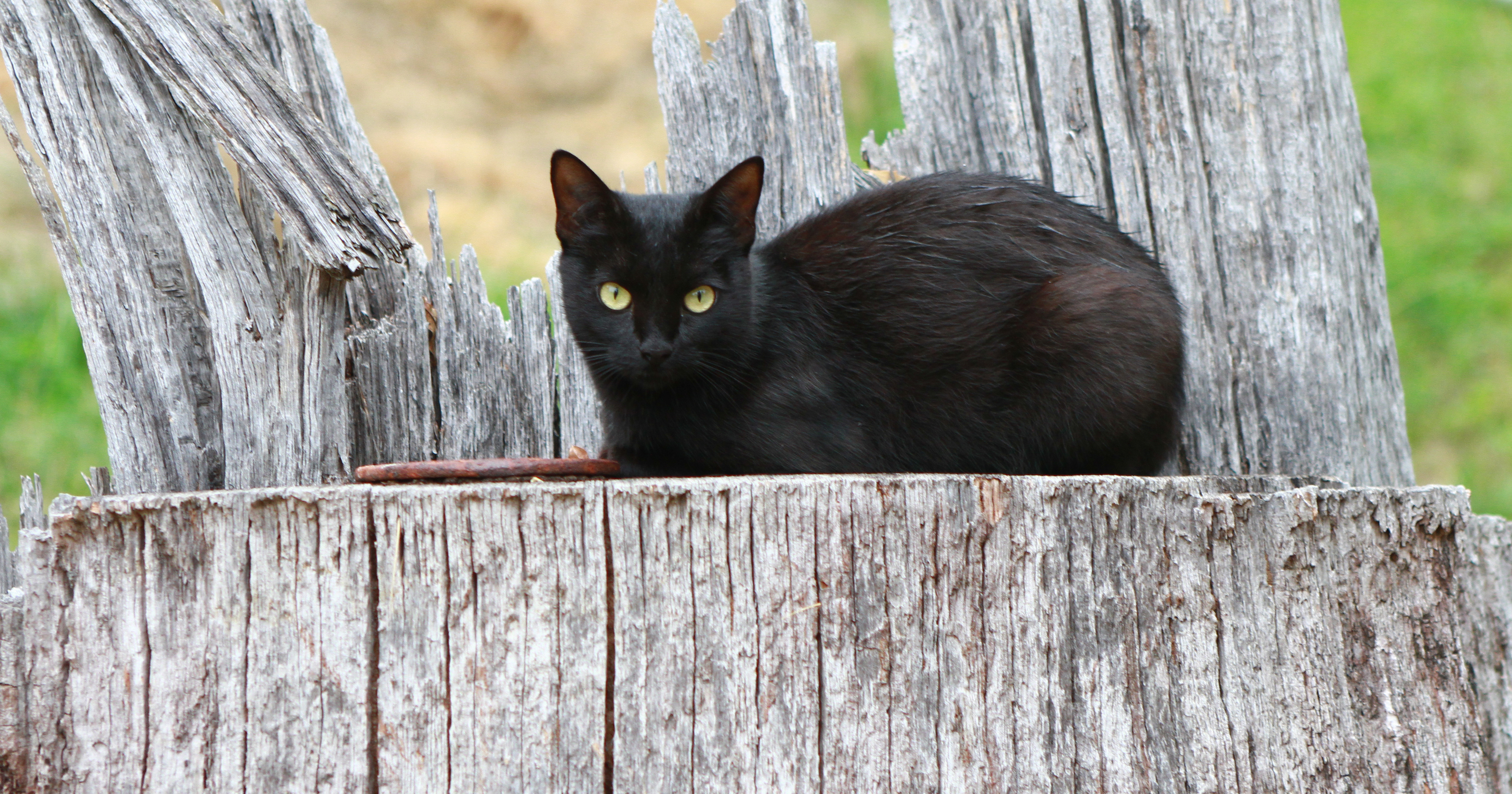 black cat perched on a stump